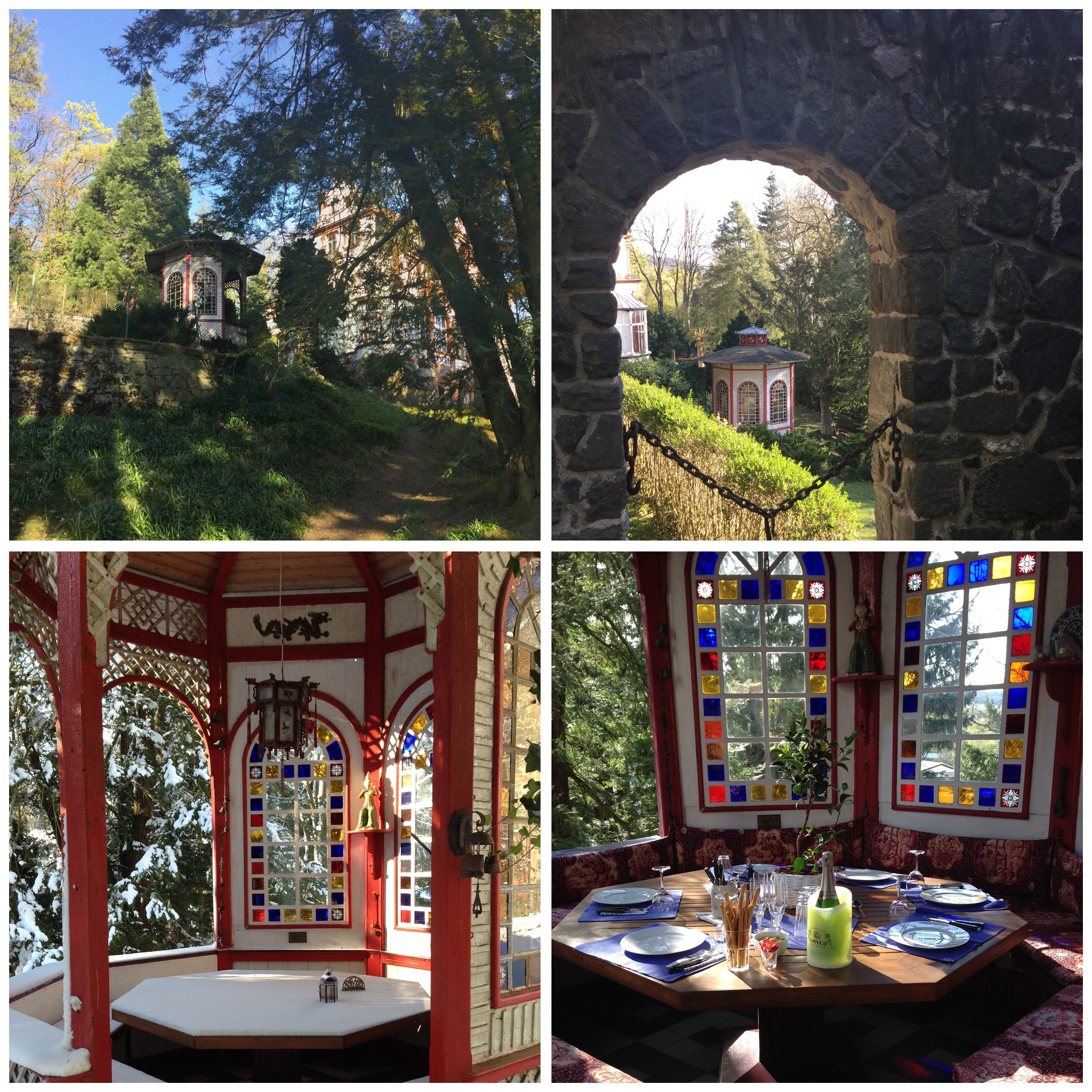 Chinese tea house in the park of Villa Haas for an idea of ​​the former colonial officer v. Retzlaff (Tsingtao/Qingdao). Built around the turn of the century circa 1900.